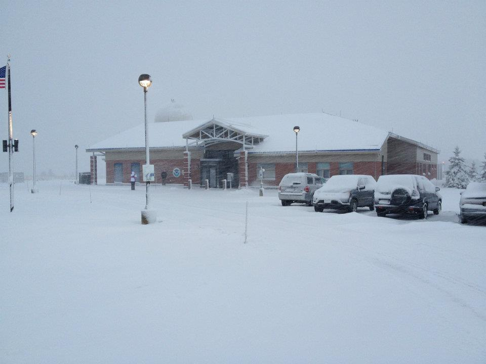 This picture of the NWS Weather Service Forecast Office in Caribou, ME, is from the winter of 2011.